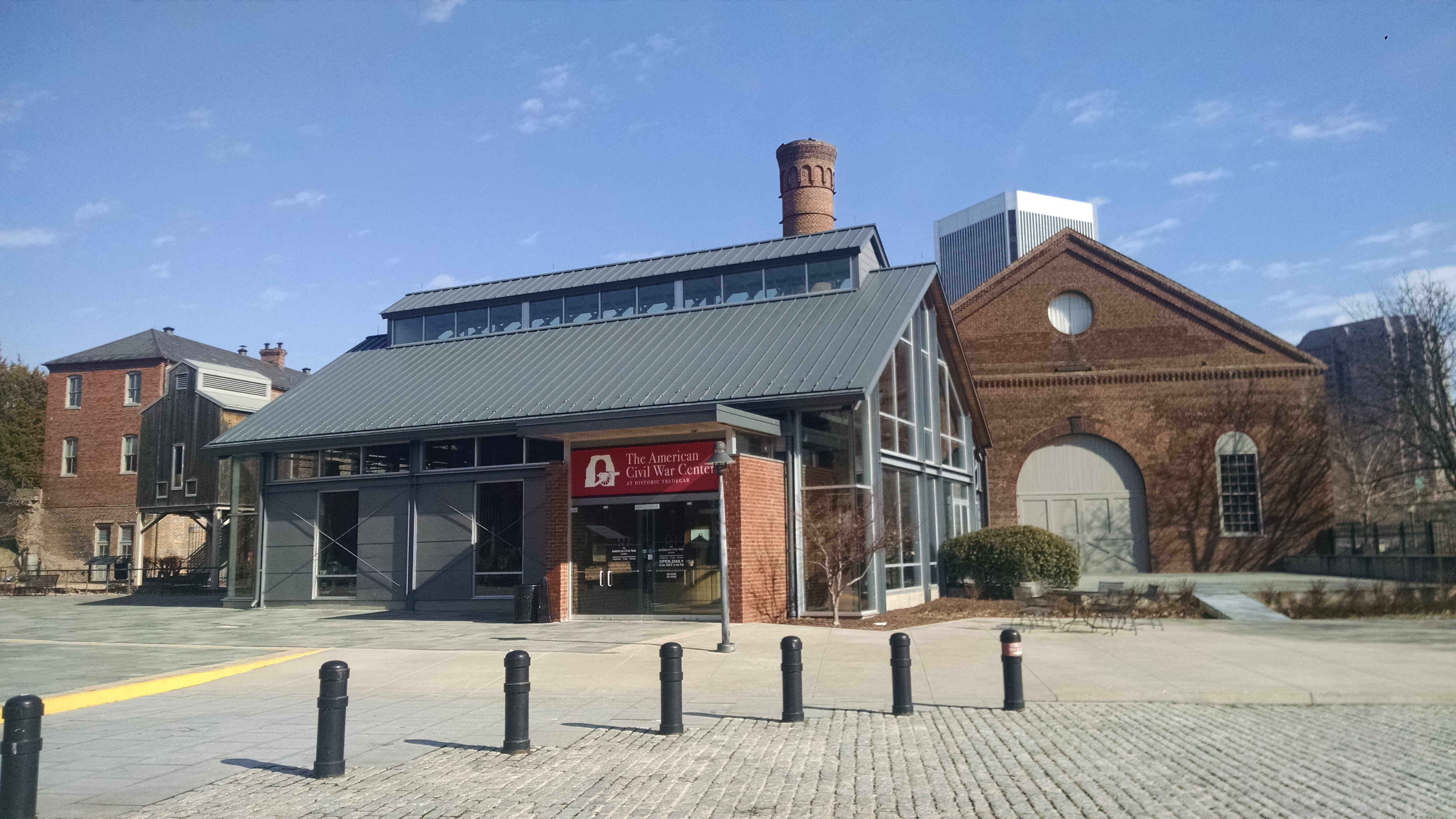 The American Civil War Center at Historic Tredegar, located at the Tredegar Iron Works